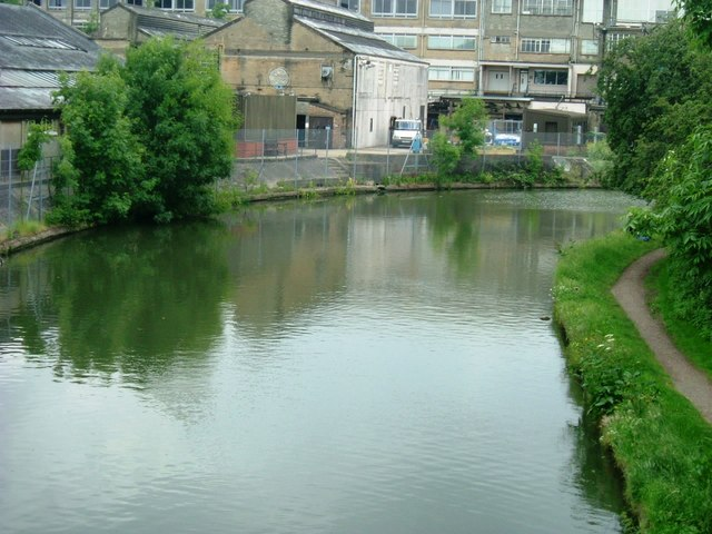 Grand Union Canal, Greenford Taken from Oldfield Lane North